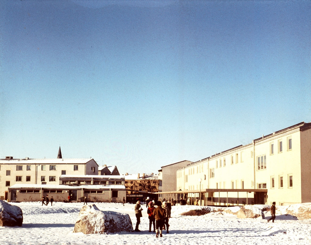 The school Lillåstrandskolan, Örebro, Sweden